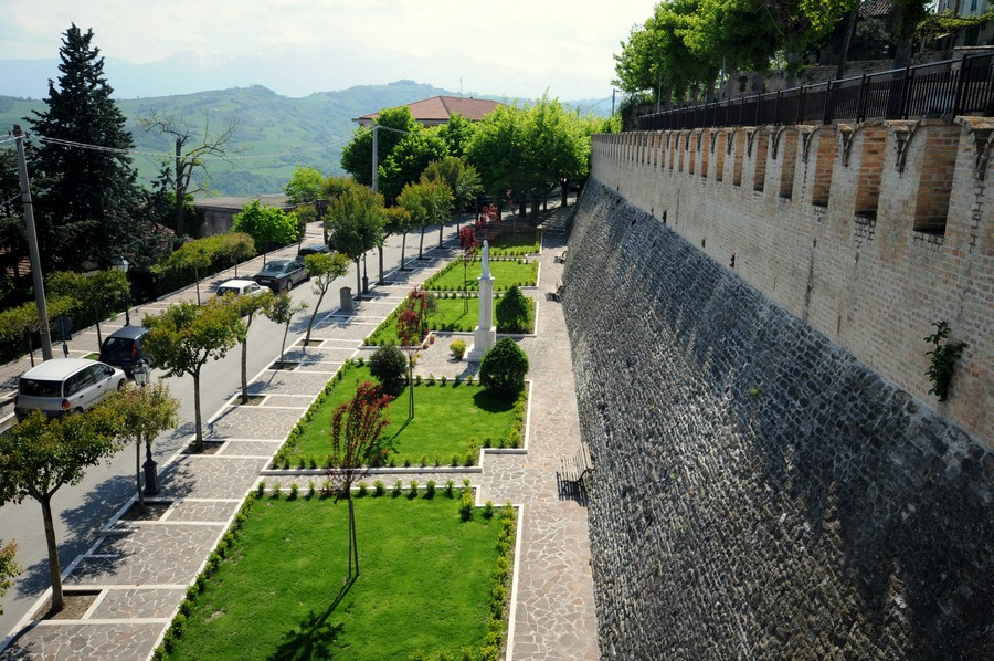 vista giardino dal torrione